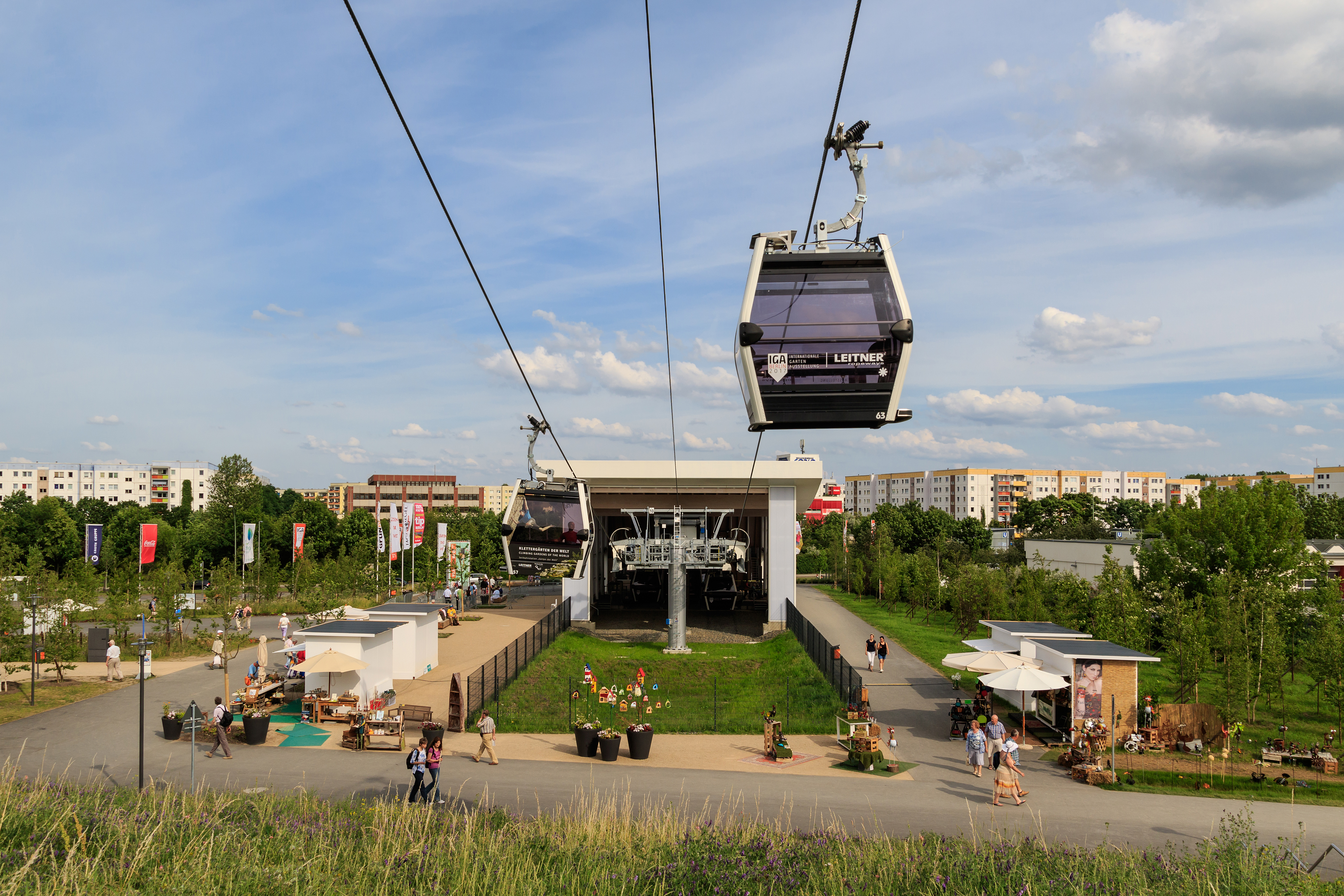 Kienberg Marzahn and surroundings (IGA 2017 area) in Berlin (Germany)